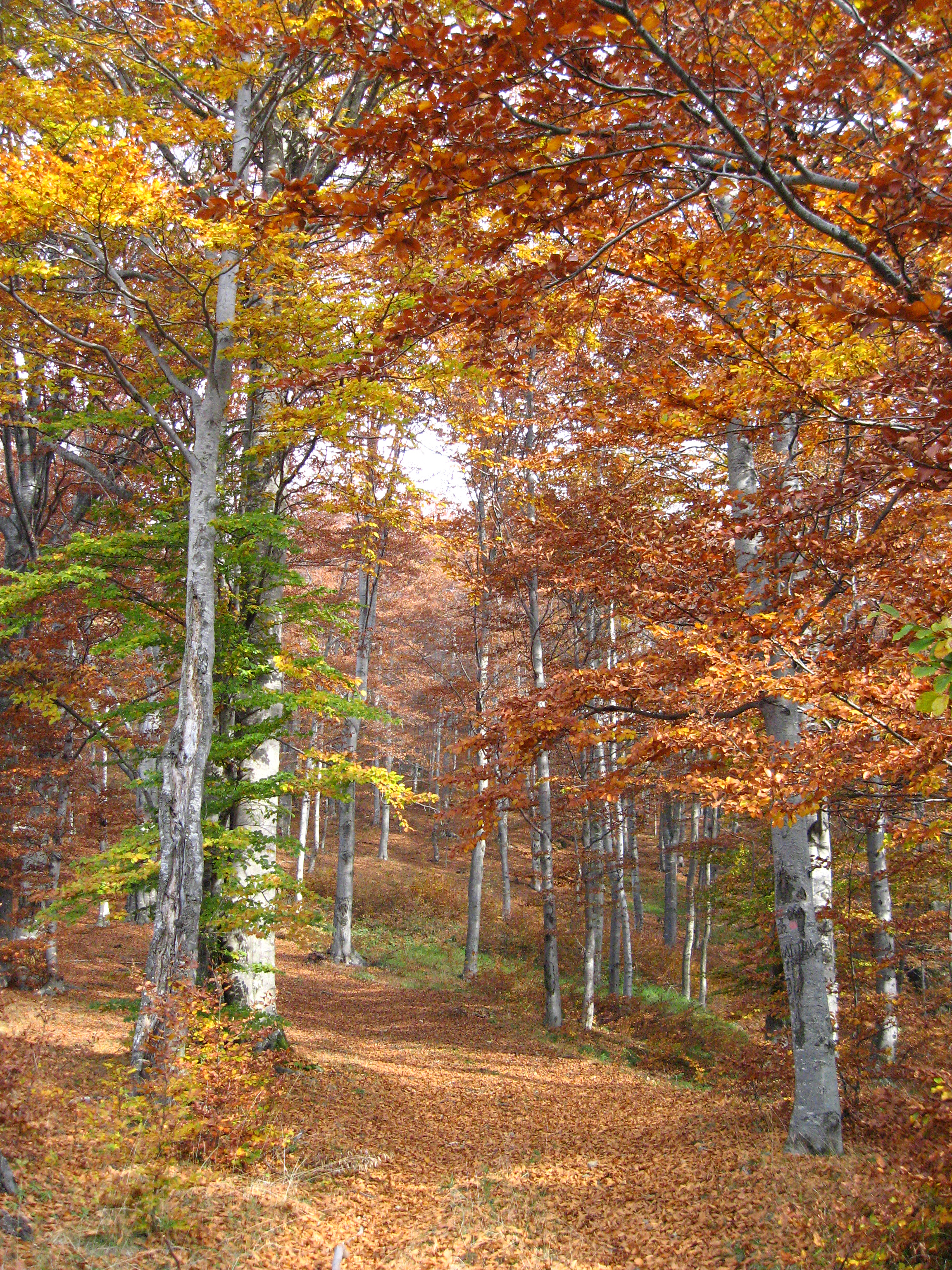 Jablanik - Western Serbia - place Debelo brdo - On the way to the top Jablanik - Beech forest in autumn 1